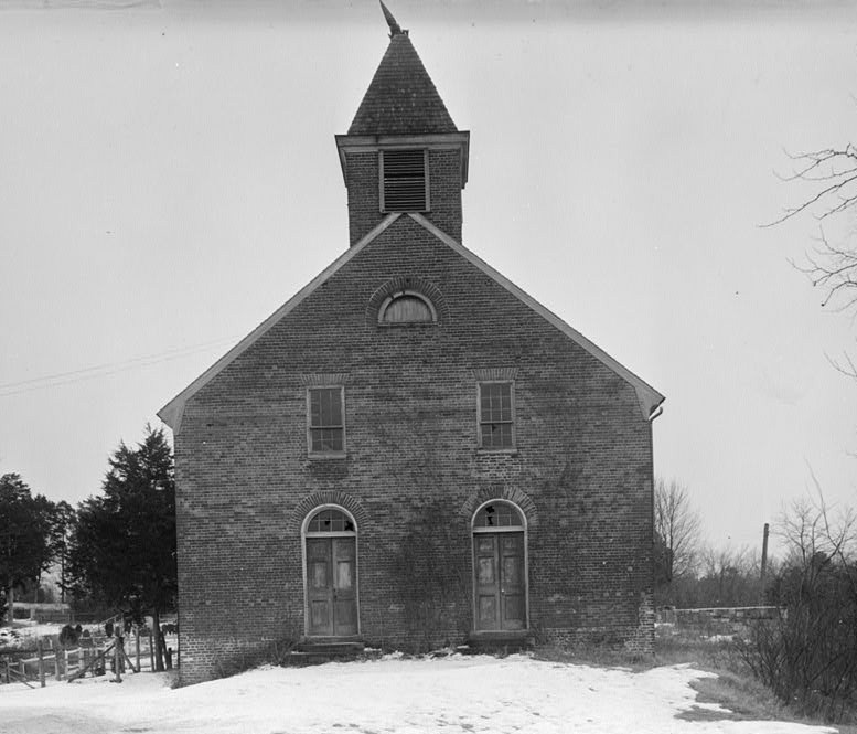 Union Church (Facade), Carter Street, Falmouth (Stafford County, Virginia) cropped, HABS VA,90-FAL,10-1 This file comes from the Historic American Buildings Survey (HABS), Historic American Engineering Record (HAER) or Historic American Landscapes Survey (HALS). These are programs of the National Park Service established for the purpose of documenting historic places. Records consist of measured drawings, archival photographs, and written reports. When reusing please credit: Library of Congress, Prints & Photographs Division, VA-203 This tag does not indicate the copyright status of the attached work. A normal copyright tag is still required. See Commons:Licensing for more information. This work is in the public domain in the United States because it is a work prepared by an officer or employee of the United States Government as part of that person’s official duties under the terms of Title 17, Chapter 1, Section 105 of the US Code. See Copyright. Note: This only applies to original works of the Federal Government and not to the work of any individual U.S. state, territory, commonwealth, county, municipality, or any other subdivision. This template also does not apply to postage stamp designs published by the United States Postal Service since 1978. (See § 313.6(C)(1) of Compendium of U.S. Copyright Office Practices). It also does not apply to certain US coins; see The US Mint Terms of Use. This file has been identified as being free of known restrictions under copyright law, including all related and neighboring rights. Object location38° 19′ 23.87″ N, 77° 28′ 00.06″ W